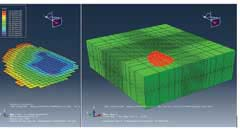 نرم افزار ECLIPSE